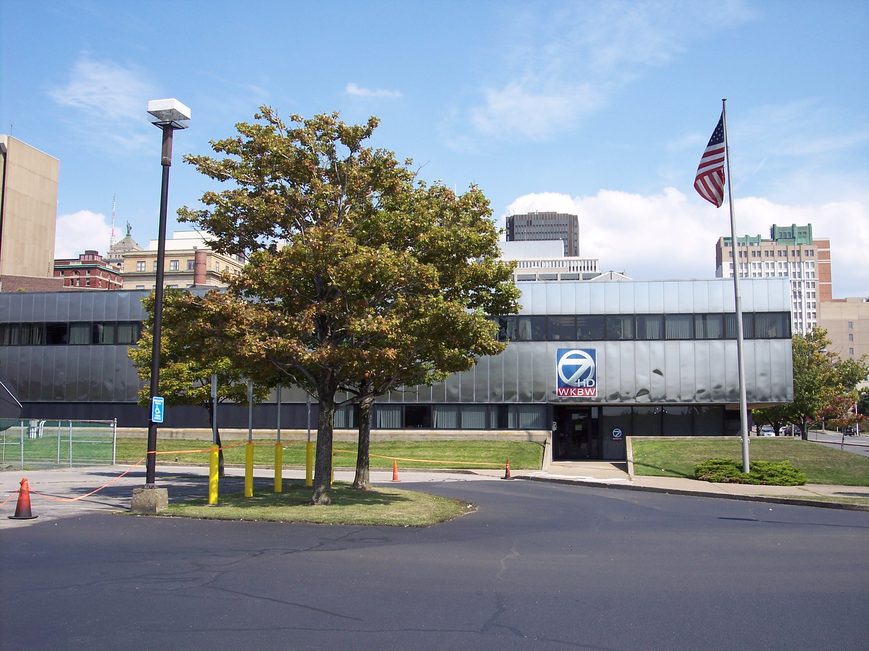 Studio building of WKBW-TV